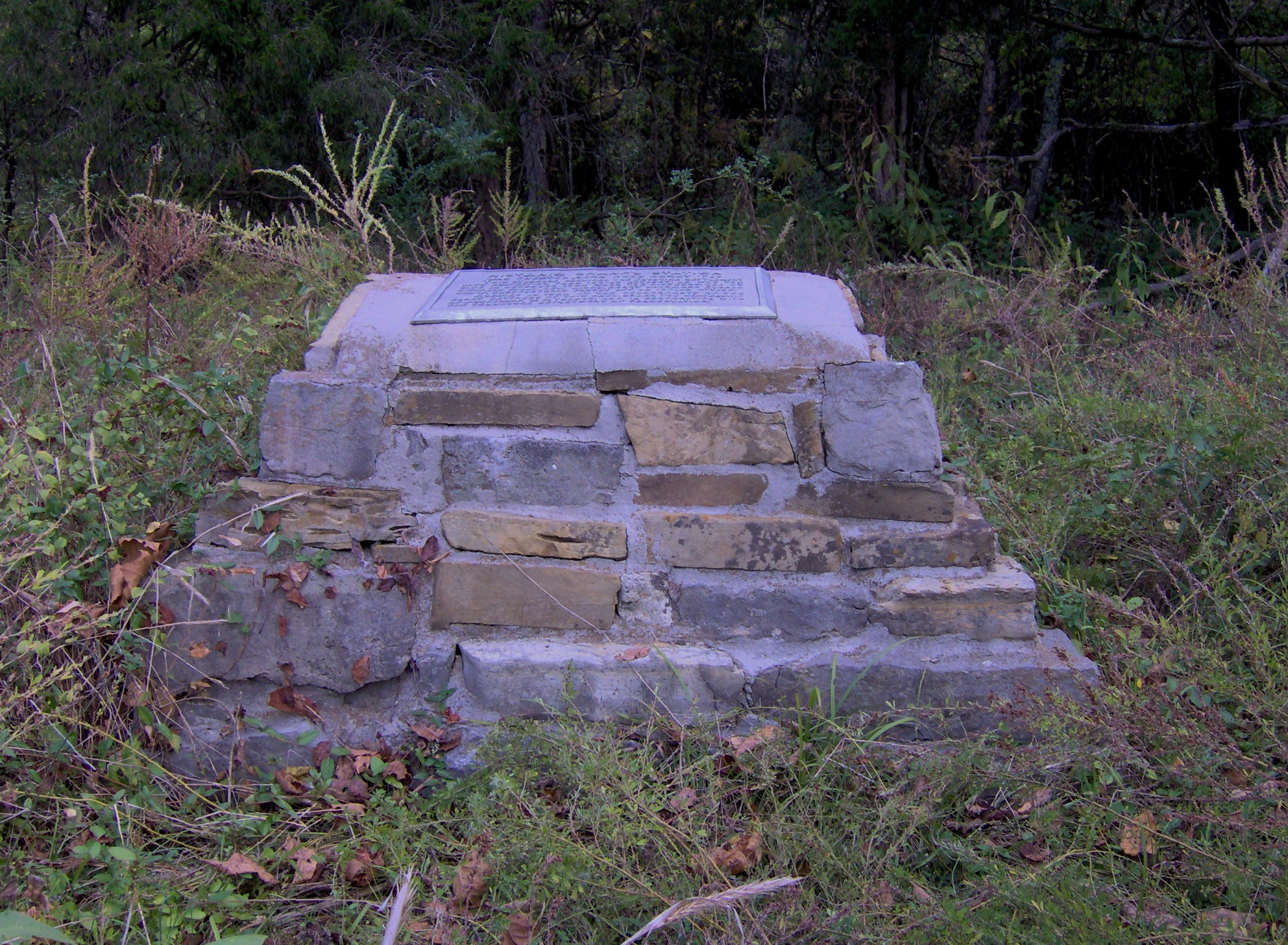 Monument noting the site of Sharp's Station at Big Ridge State Park in Union County, Tennessee, in the southeastern United States. Sharp's Station was an 18th-century frontier fort that protected early settlers and migrants from hostile Native American attacks. This monument is located at the end of the Sharp's Station Trail, a remote spur of the park's Indian Rock Loop. The trail intersects the loop at the base of Big Ridge, denoted by a tree blazed with three red rings. The trail leads across the creek, and then follows both orange ribbons and square red blazes with a white dot in the middle. When lake levels are low, it's easier to follow the lakeshore until you see two trees with "NO CAMPING" signs. The plaque atop the monument reads: HISTORIC SHARP'S STATION WAS ERECTED NEAR HERE ABOUT 1784 THIS STOCKADE PROVIDED THE FRONTIER SETTLEMENT WITH PROTECTION FROM INDIAN ATTACKS, AS WAS THE CASE IN DECEMBER 1794 WHEN THE PIONEERS, LED BY NICHOLAS GIBBS, LEVI HINDS, HENRY SHARP, AND CONRAD SHARP, SUCCESSFULLY FOUGHT OFF AN INDIAN ATTACK. ERECTED IN 1968 BY THE DESCENDANTS OF THE EARLY SETTLERS OF THIS AREA, UNDER THE LEADERSHIP OF PROFESSOR W.H. THOMAS, AND IN COOPERATION WITH THE TENNESSEE DEPARTMENT OF CONSERVATION.